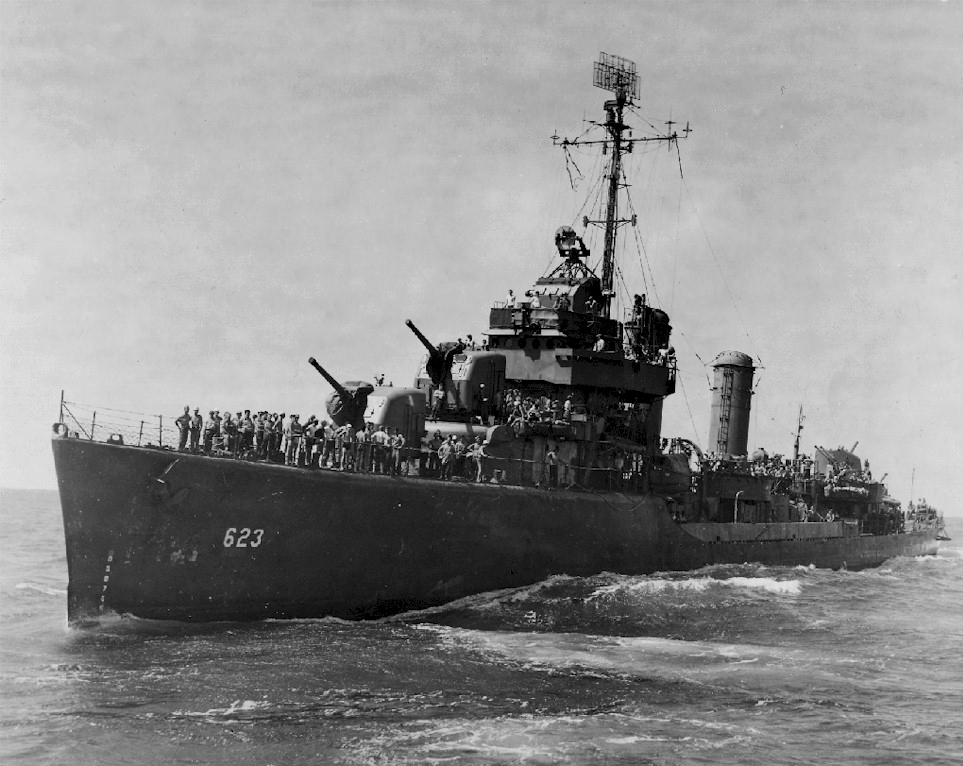 The U.S. Navy destroyer USS Nelson (DD-623) coming alongside the battleship USS California (BB-44) on a cruise en route to Capetown, South Africa, in September 1945.